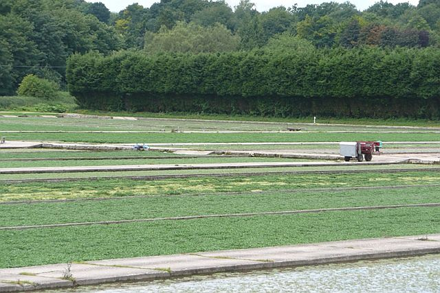 Vitacress, watercress production There are extensive watercress beds here, in the flat lands of the Bourne Rivulet.